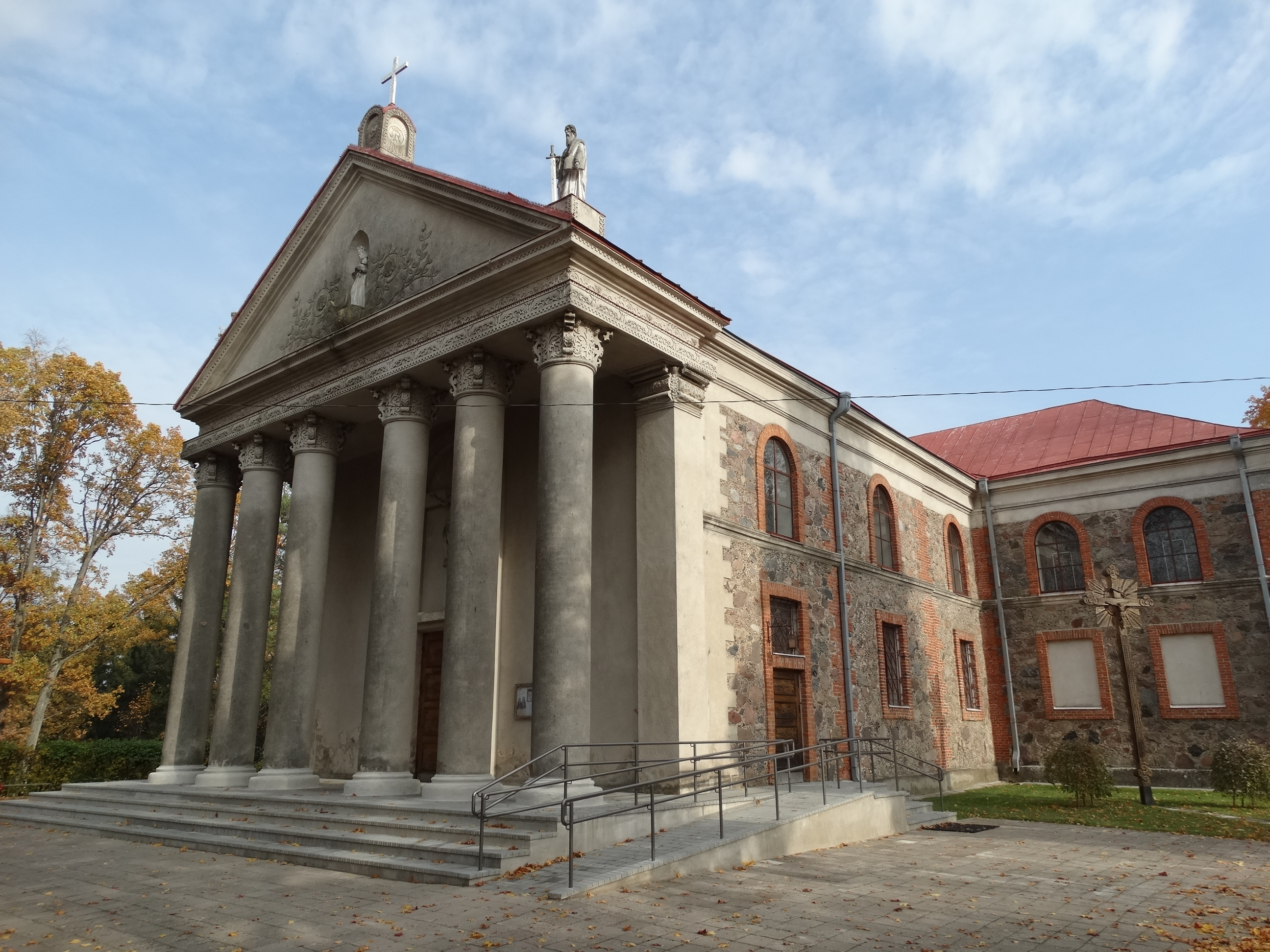 Roman Catholic Church of St. John the Baptist, Pajevonys, Vilkaviškis District, Lithuania